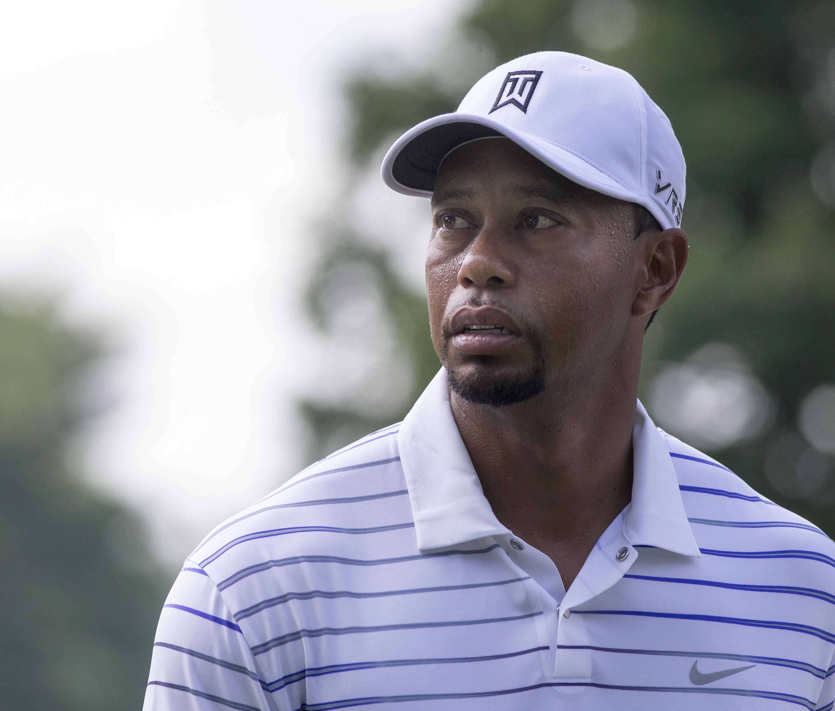 Tiger Woods at the Quicken Loans National golf tournament at Congressional Country Club on June 25, 2014 in Bethesda, Maryland.